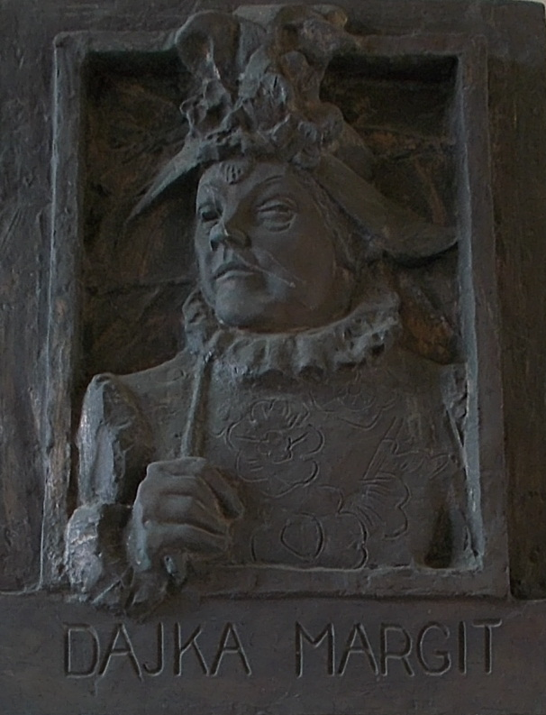 Bronze reliefs on Danube side of the New National Theatre from Gizella Promenade, Ferencváros district, Budapest, Hungary.